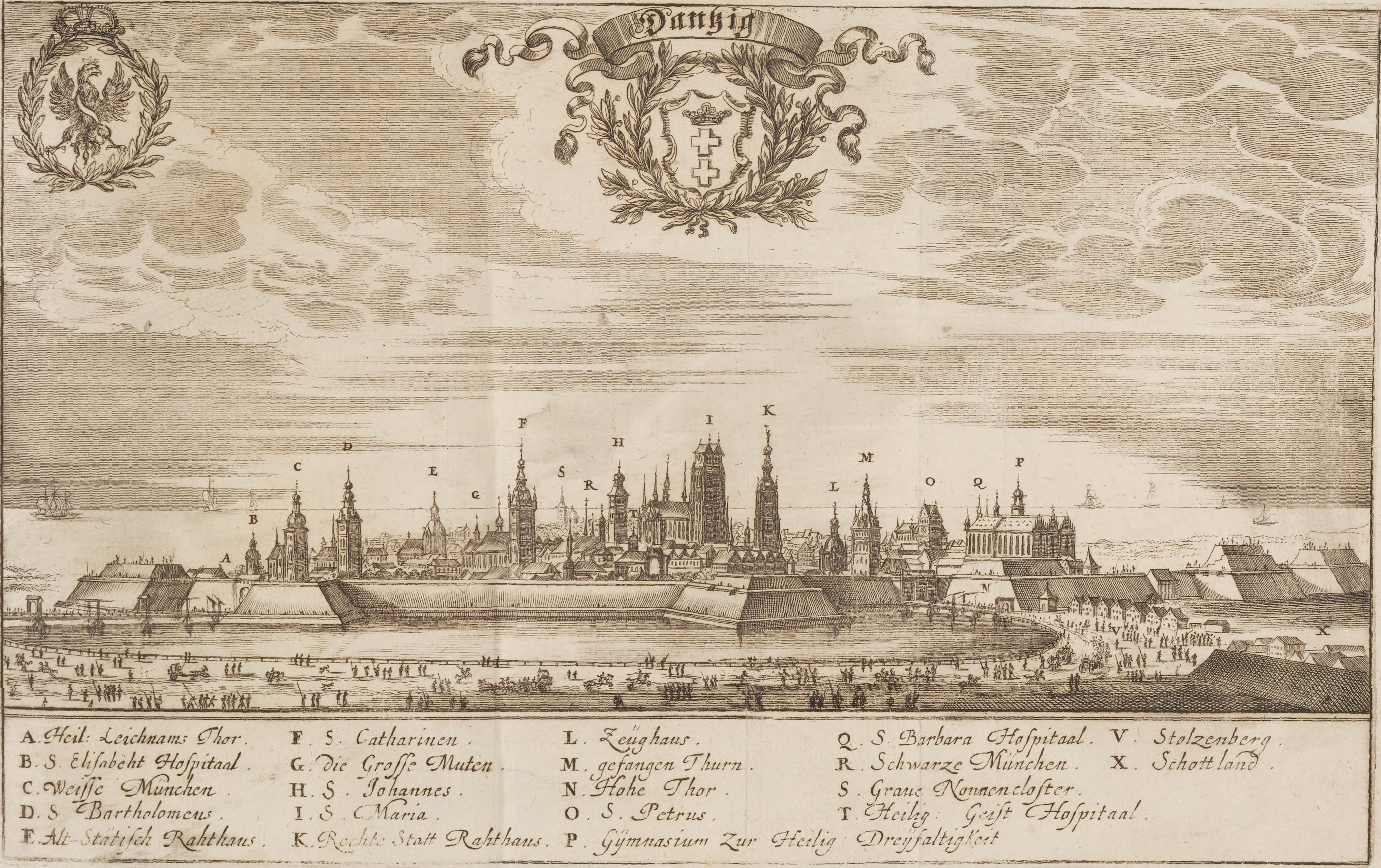 Danzig in the 17th century. From Christoph Hartknoch`s book Alt- und neues Preussen, page 428.